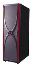 Unisys Enterprise Server ES7000